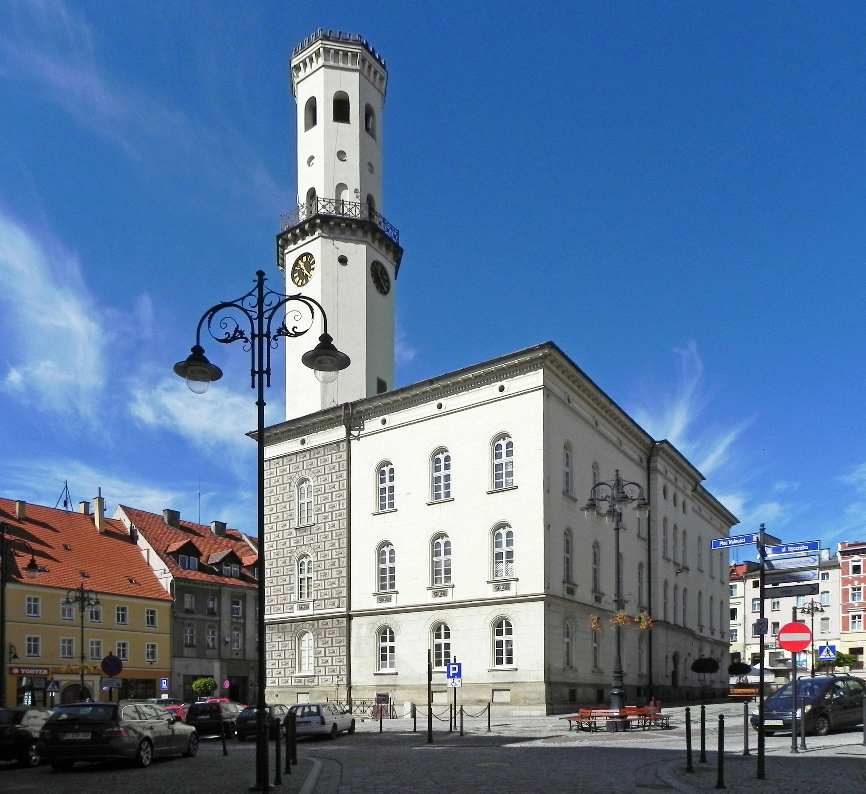 Town hall in Bystrzyca Kłodzka